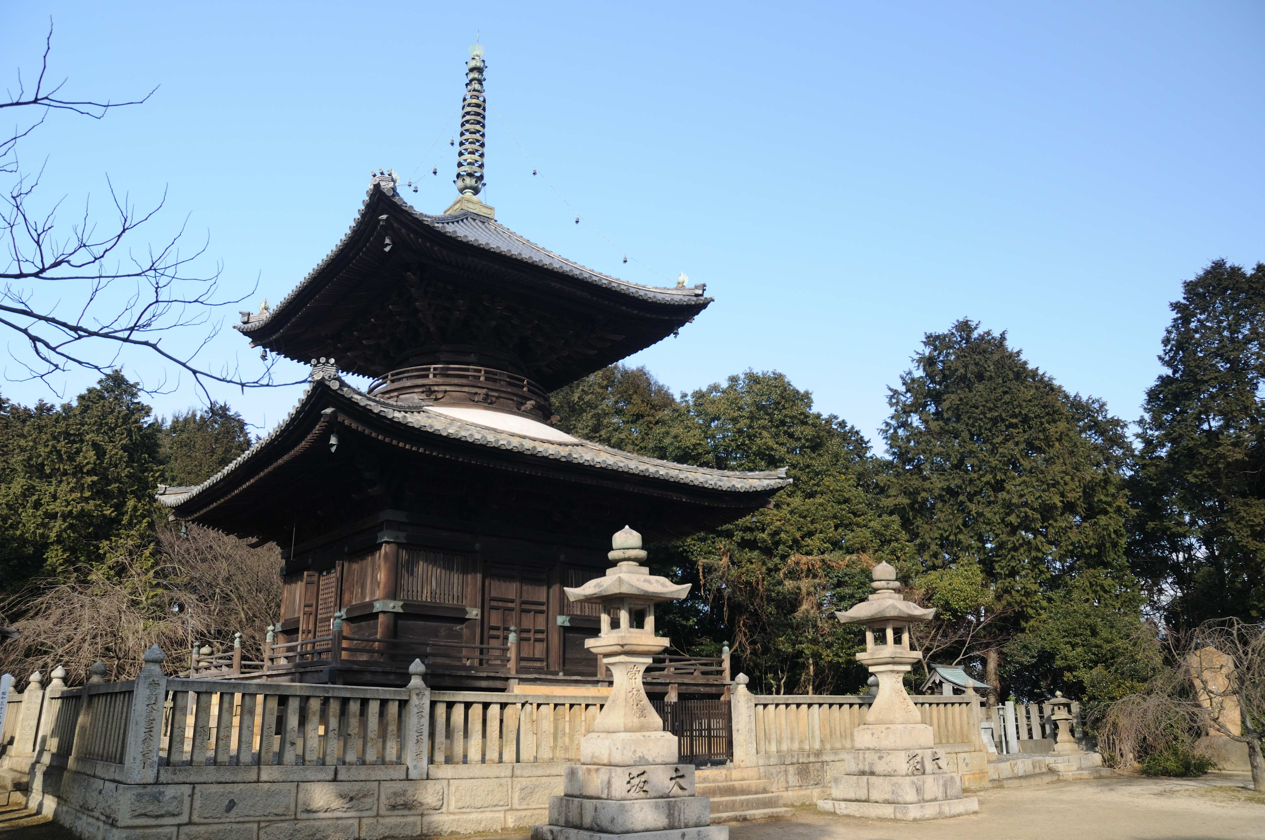 the Pagoda(Tahoto)